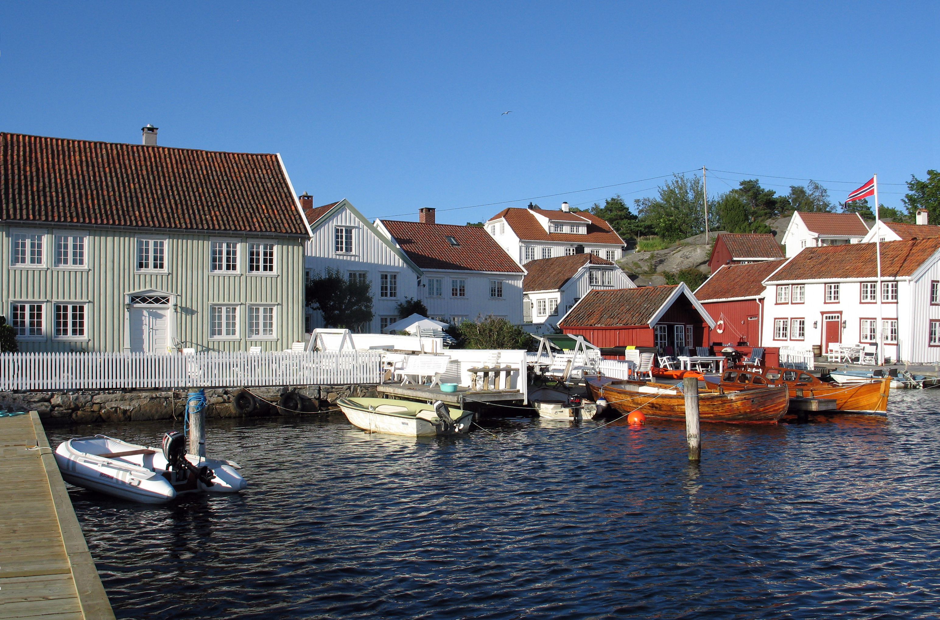 Settlement in Brekkestø, Lillesand, Norway